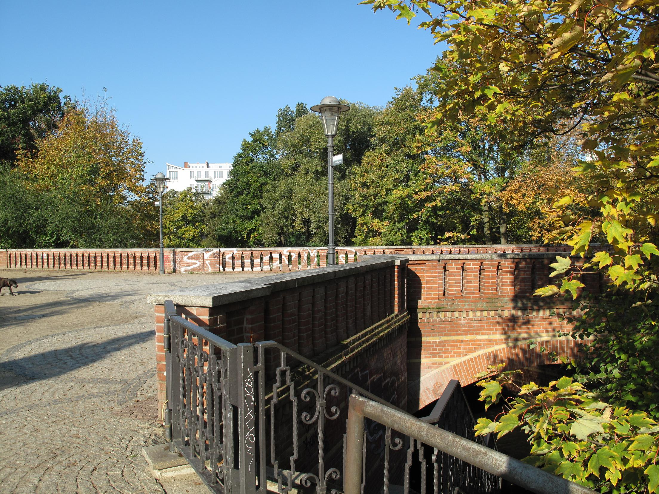 Treptower Brücke, crossing the Flutgraben of the Landwehrkanal (canal) in Berlin-Kreuzberg/Berlin-Alt-Treptow. The listed bridge was built in 1852 (other information 1894).